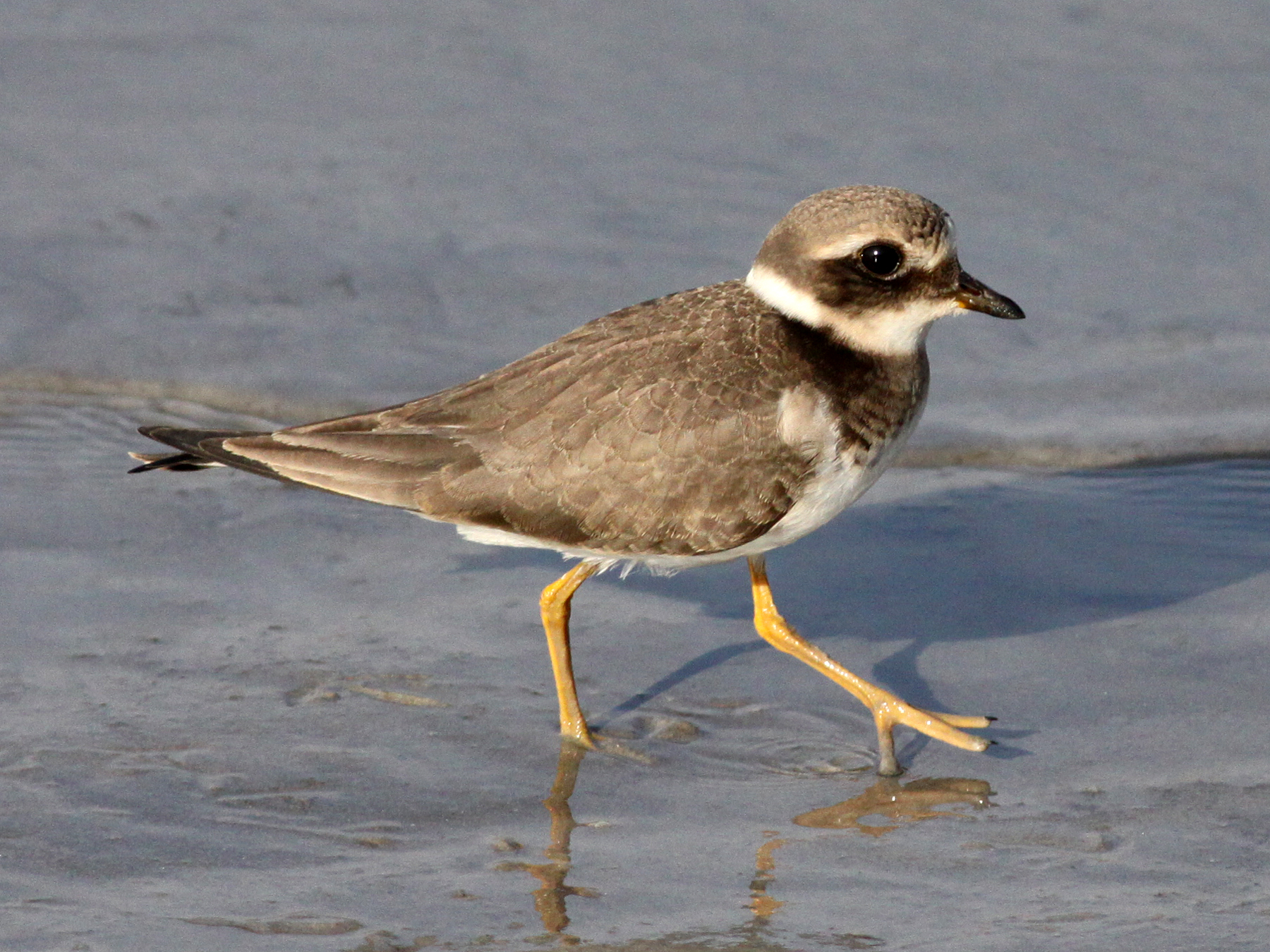 Ringed Plover (Charadrius hiaticula). Photo taken on the Rheindamm, Vorarlberg, Austria.